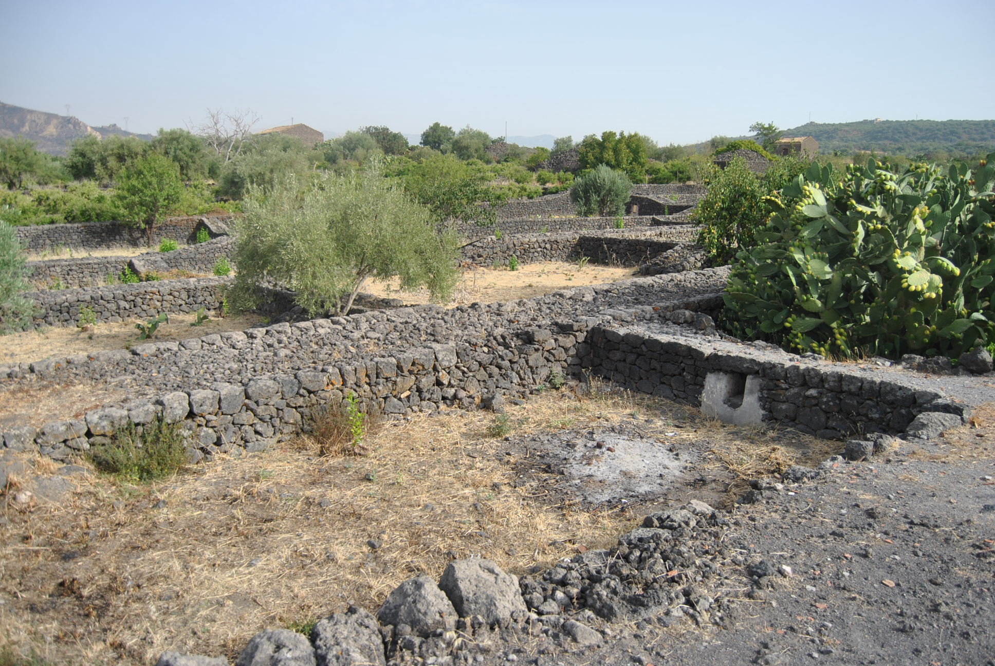 Mendolito di Adrano - agrumeti